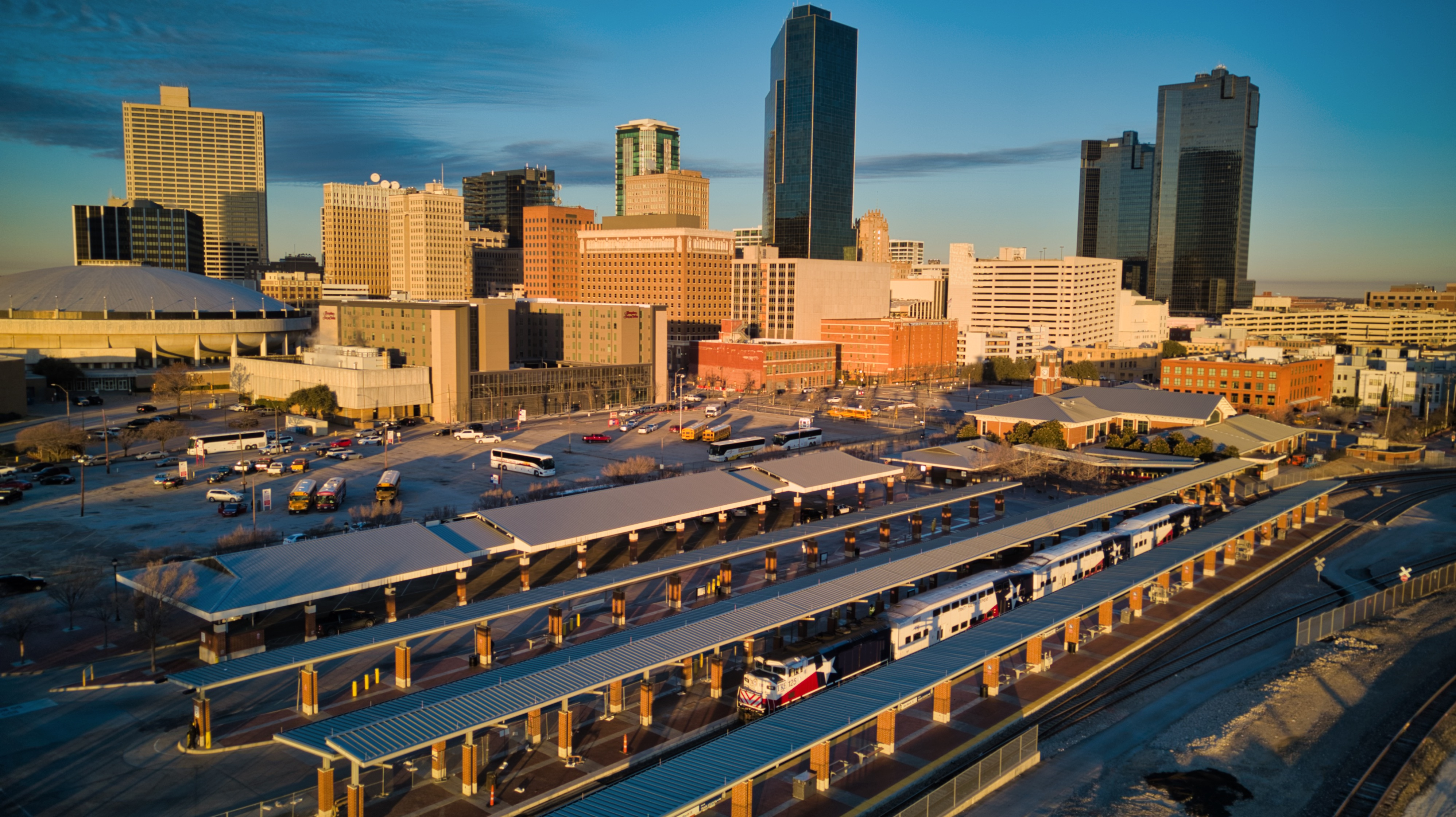 Fort Worth Intermodal Transportation Center with view of downtown in the background